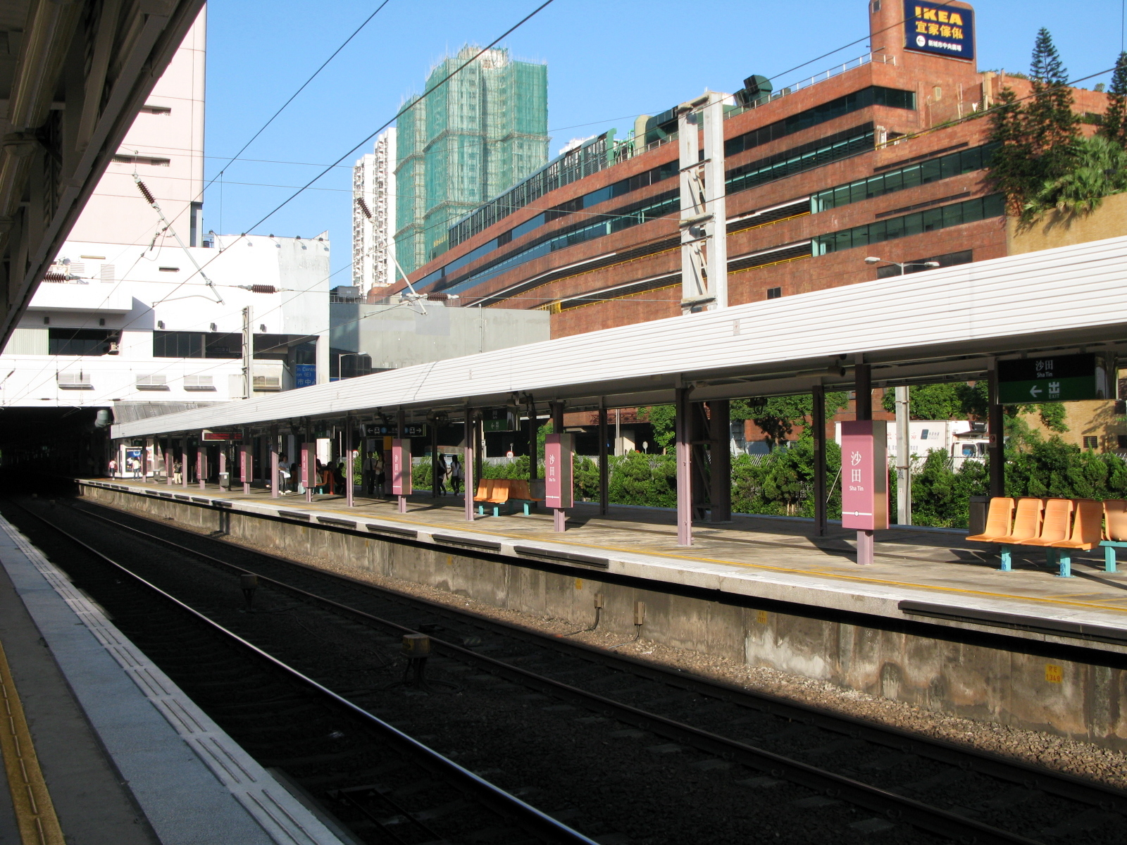 HK MTR Sha Tin Station Platform